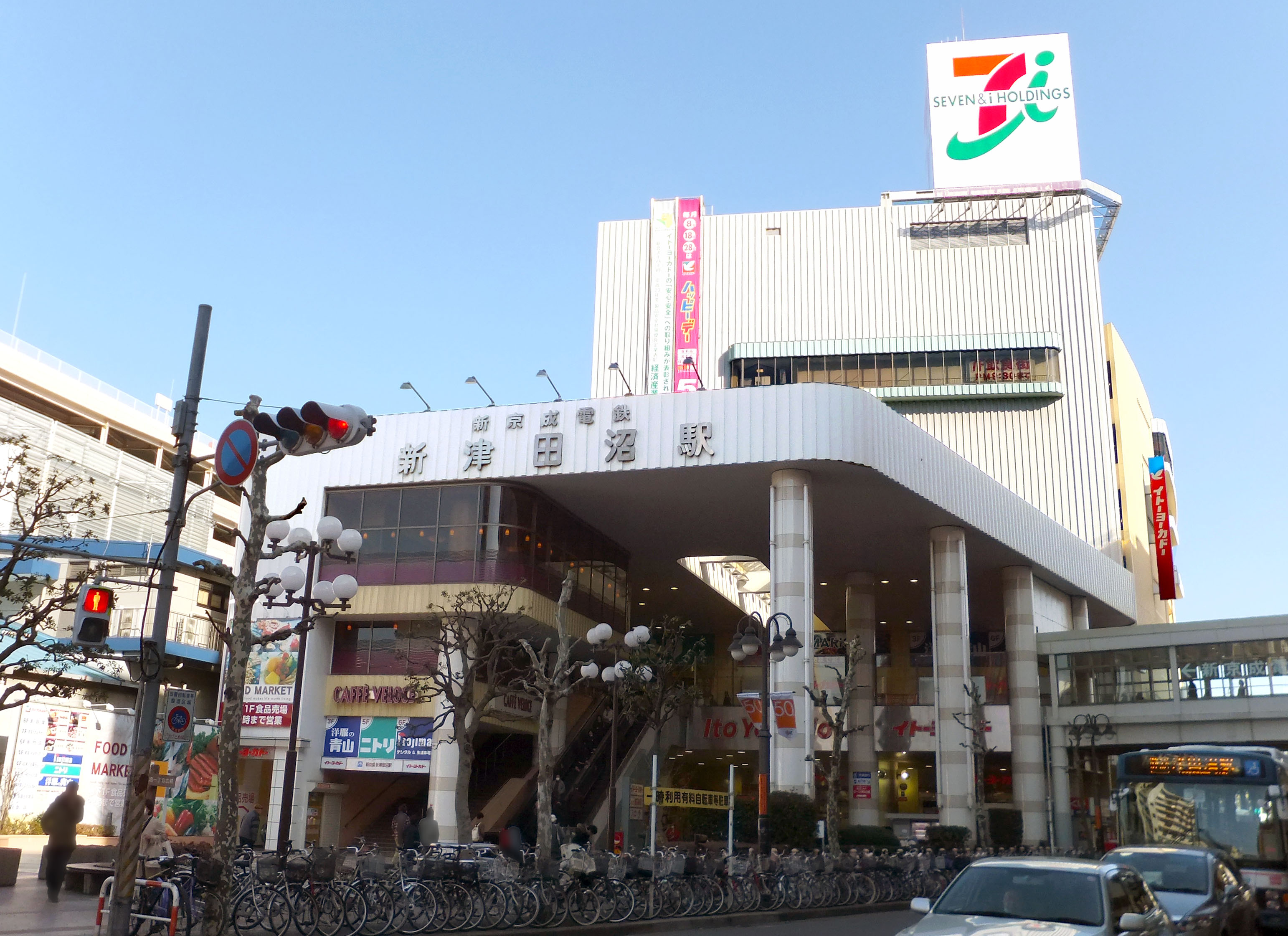 Shin-Tsudanuma Station on Shin-Keisei Line located in Narashino city, Chiba prefecture, Japan.